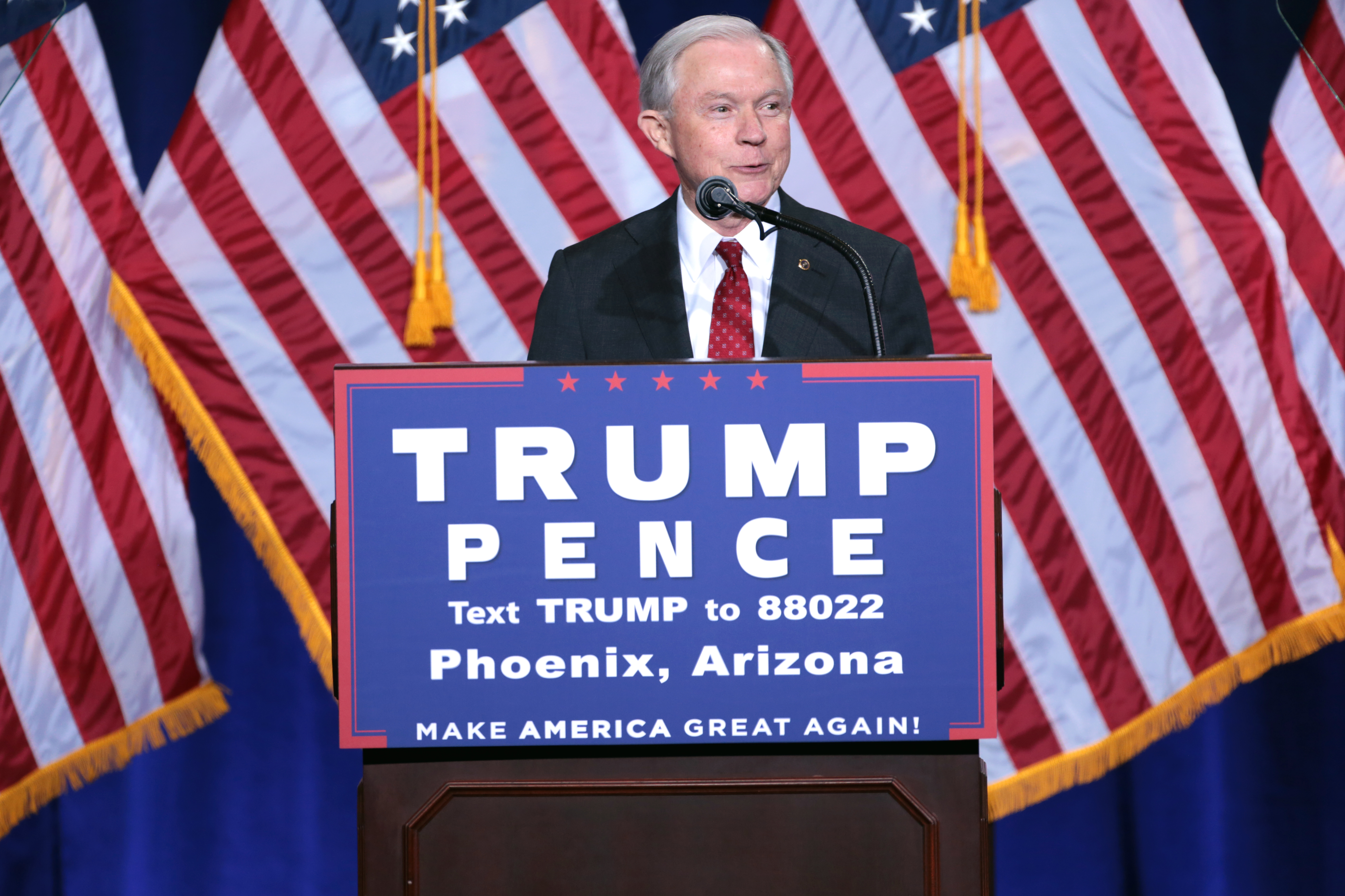 Jeff Sessions speaking at an immigration policy speech hosted by Donald Trump in Phoenix, Arizona.